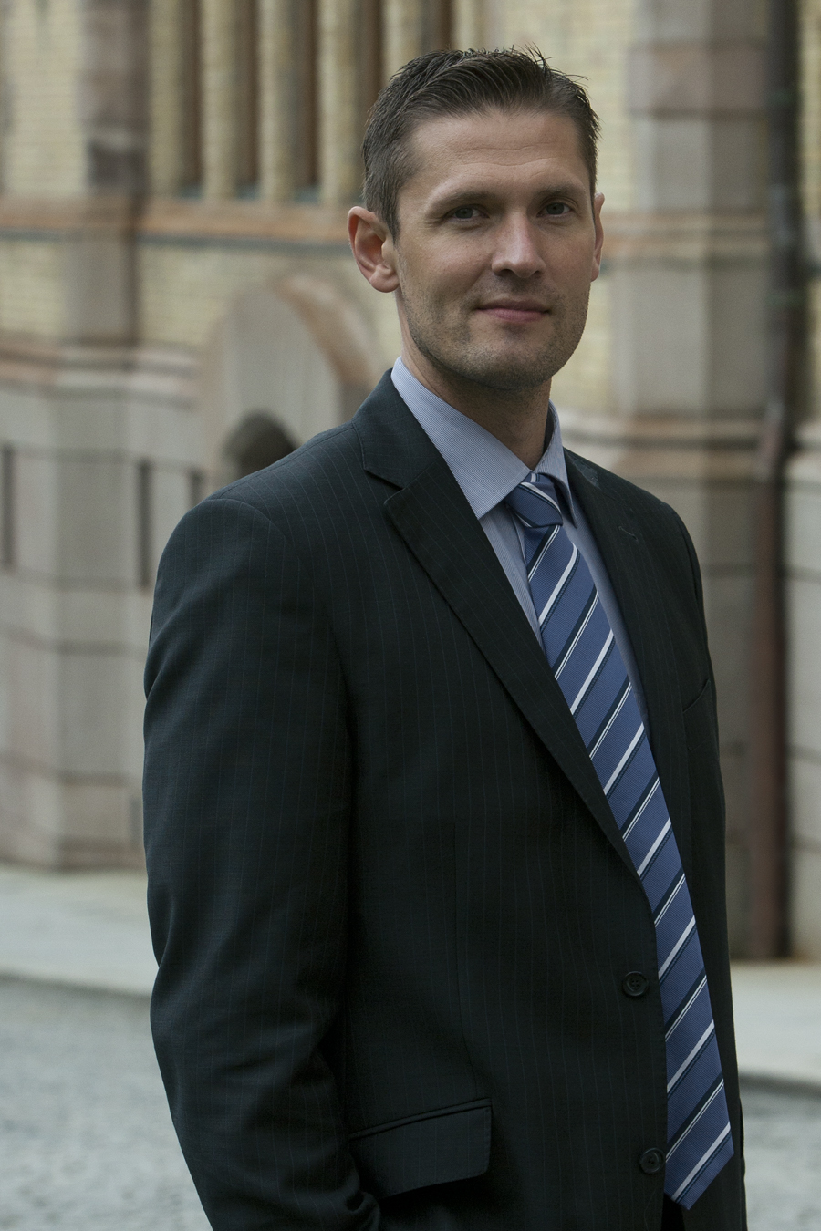 Members of Parliament of Finland for the National Coalition Party and former ice hockey player Sinuhe Wallinheimo